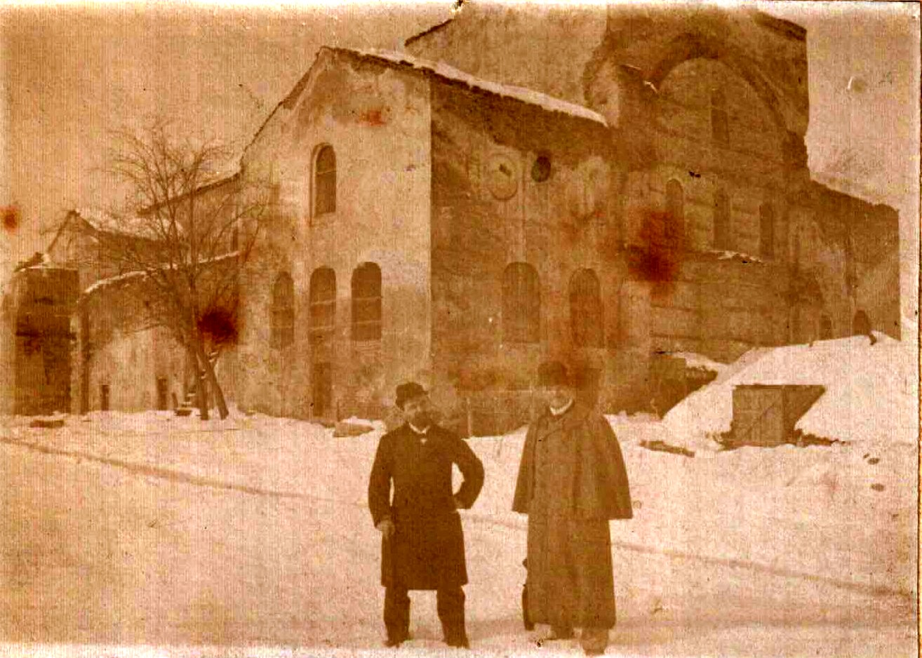 Spiridon Raychev, Saint Sofia Church, Sofia, Bulgaria.